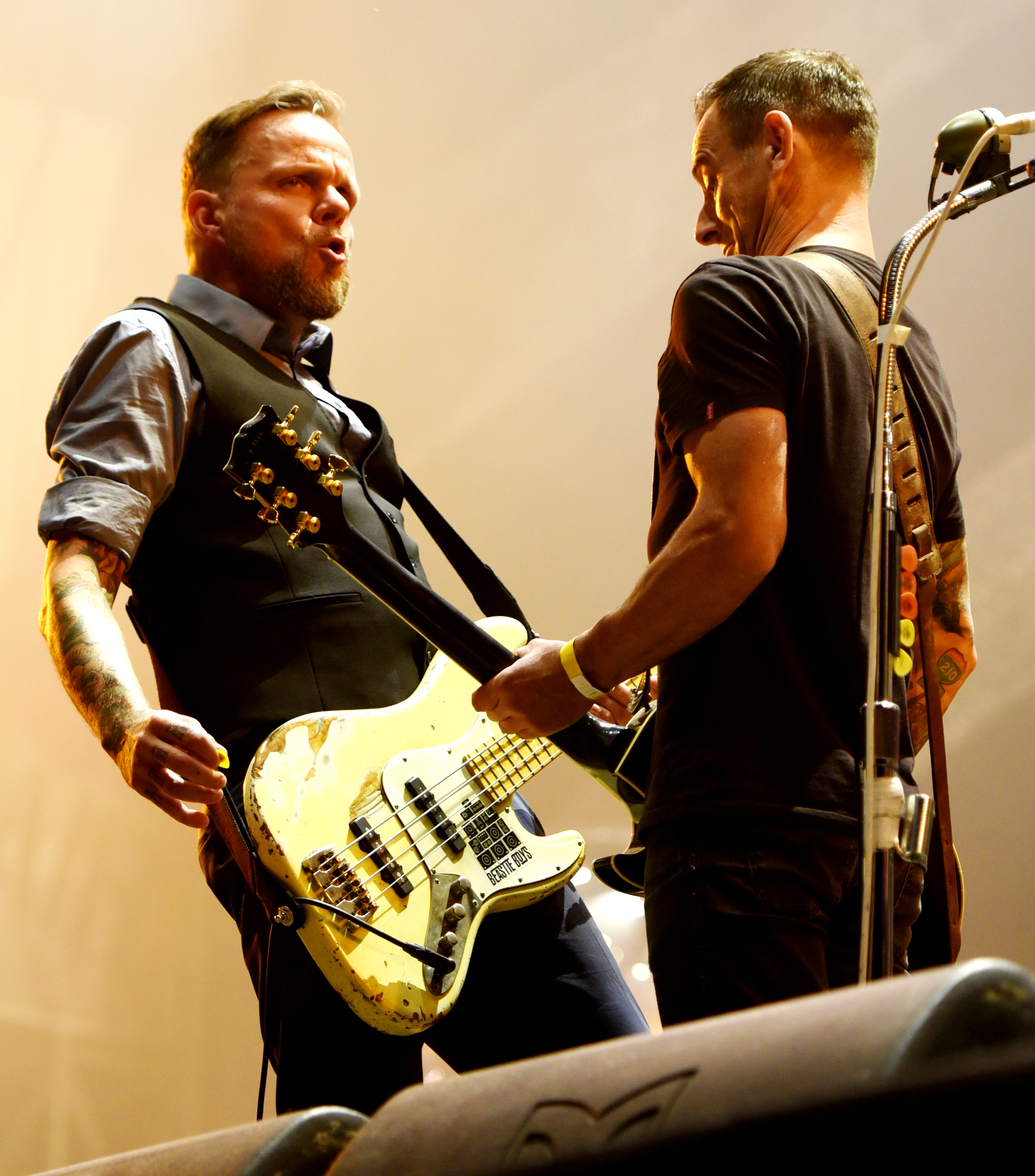 German music group Beatsteaks at the Open Flair festival 2015 in Eschwege, Germany.